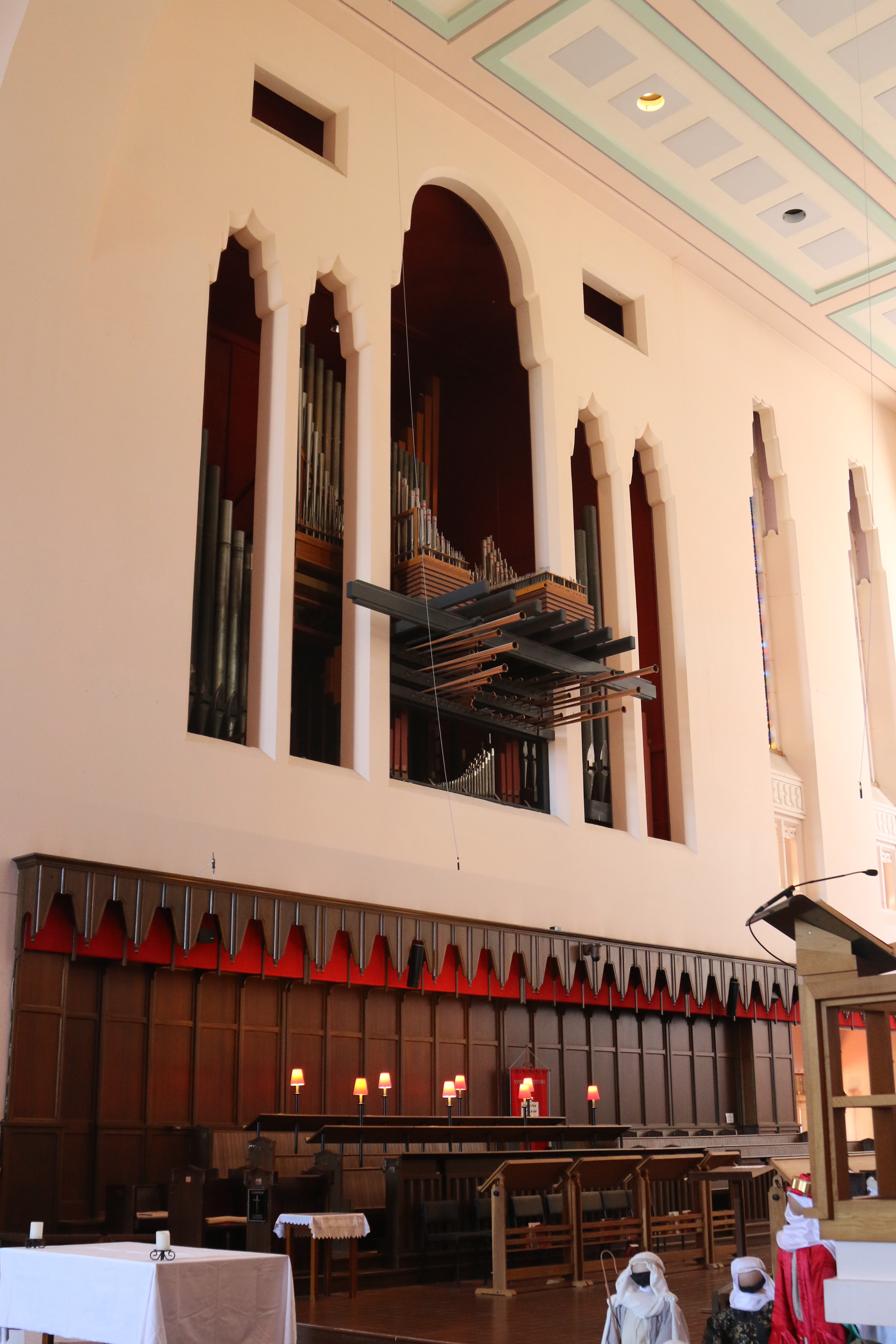 The organ in St Paul's Cathedral, Wellington